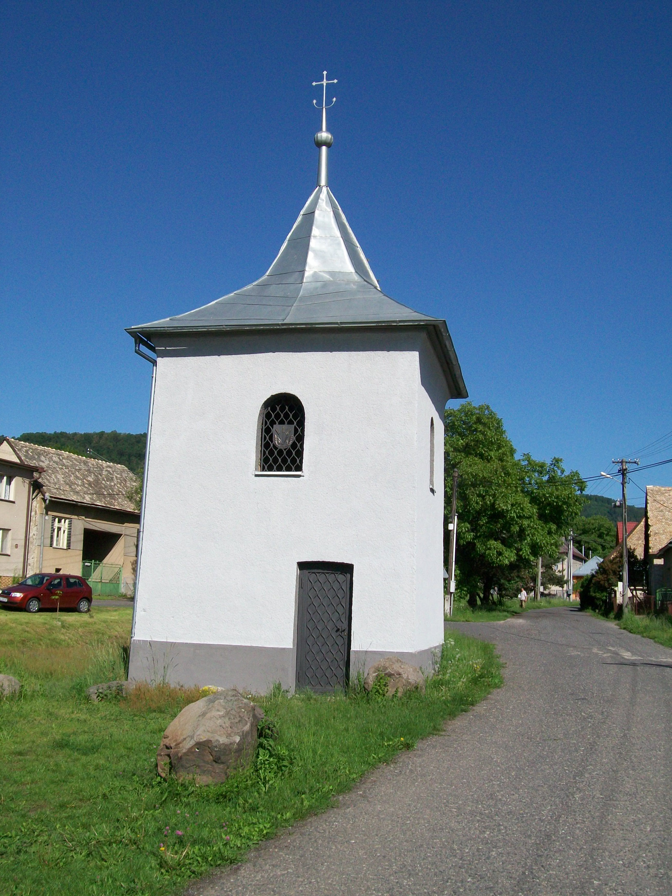 Belfry in the village Lupoč